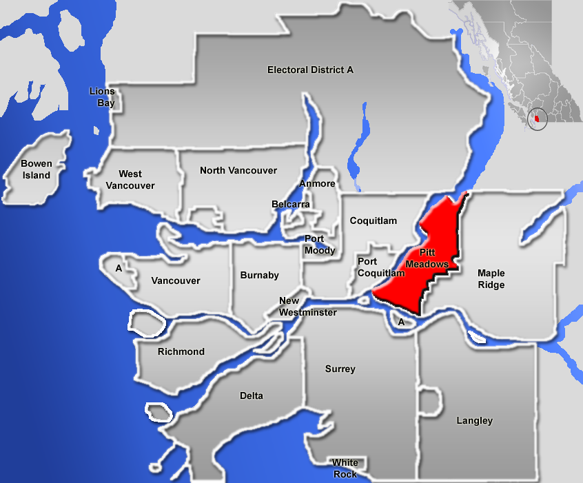 Location of Pitt Meadows, Greater Vancouver Area, British Columbia